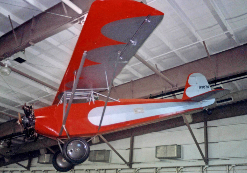 Williams Texas-Temple Sportsman biplane N987N at Dallas Love Field, Texas.